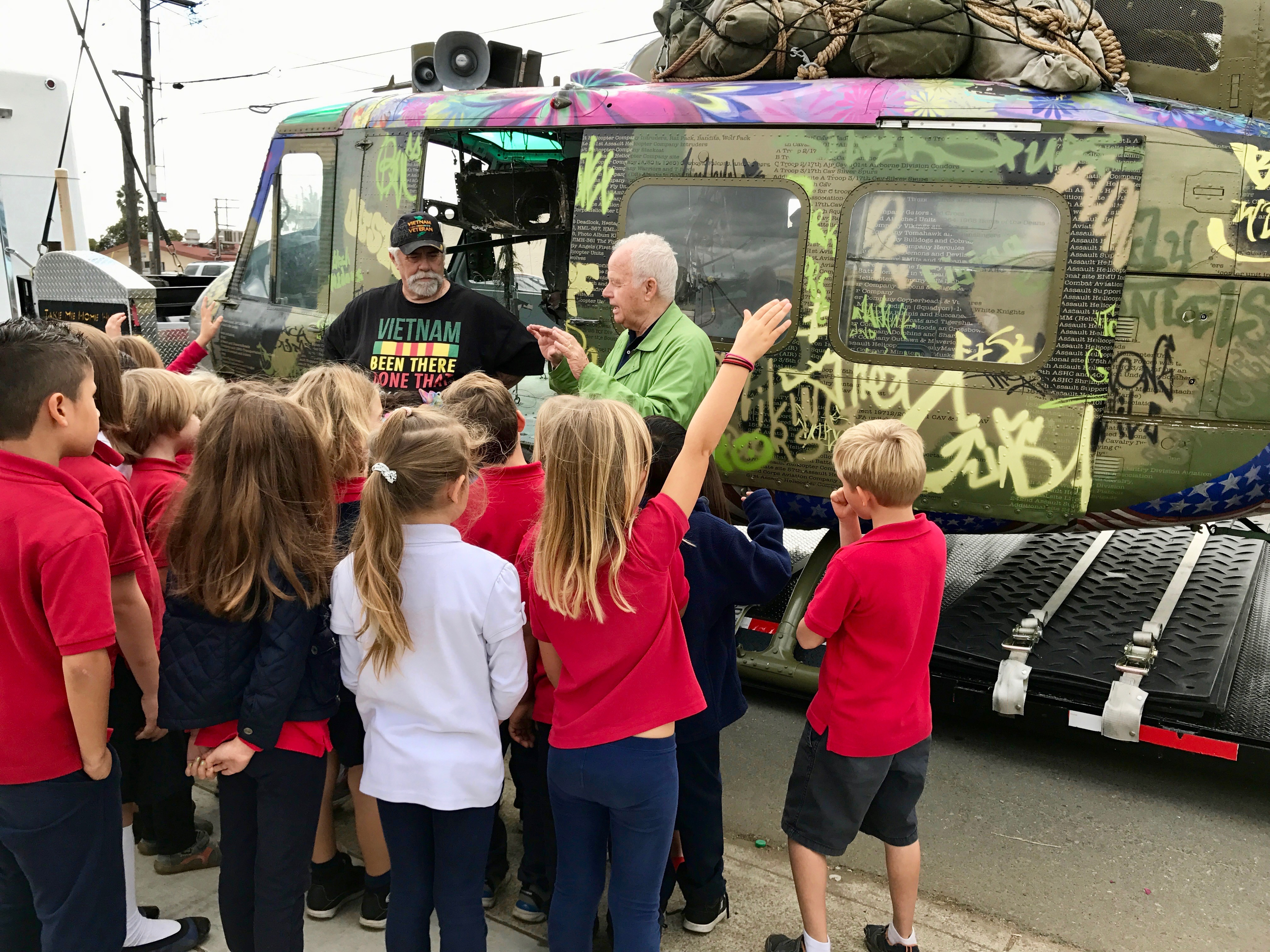 Take Me Home Huey at Albert Einstein Academies in San Diego.